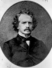 Kinsley Scott Bingham U.S. Representative, Senator and Governor of Michigan.